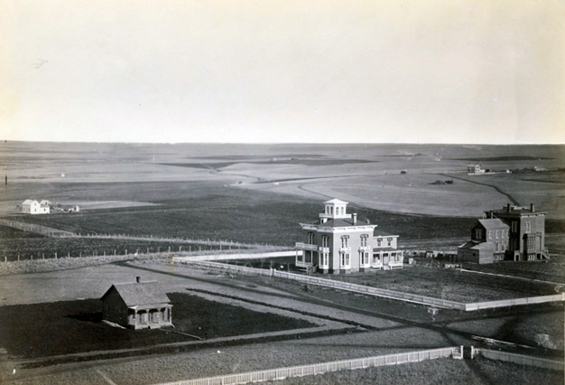 Photo of the Thomas P. Kennard & John Gillespie Houses in Lincoln, Nebraska; as seen looking east-southeast from the Nebraska State Capitol in 1872.